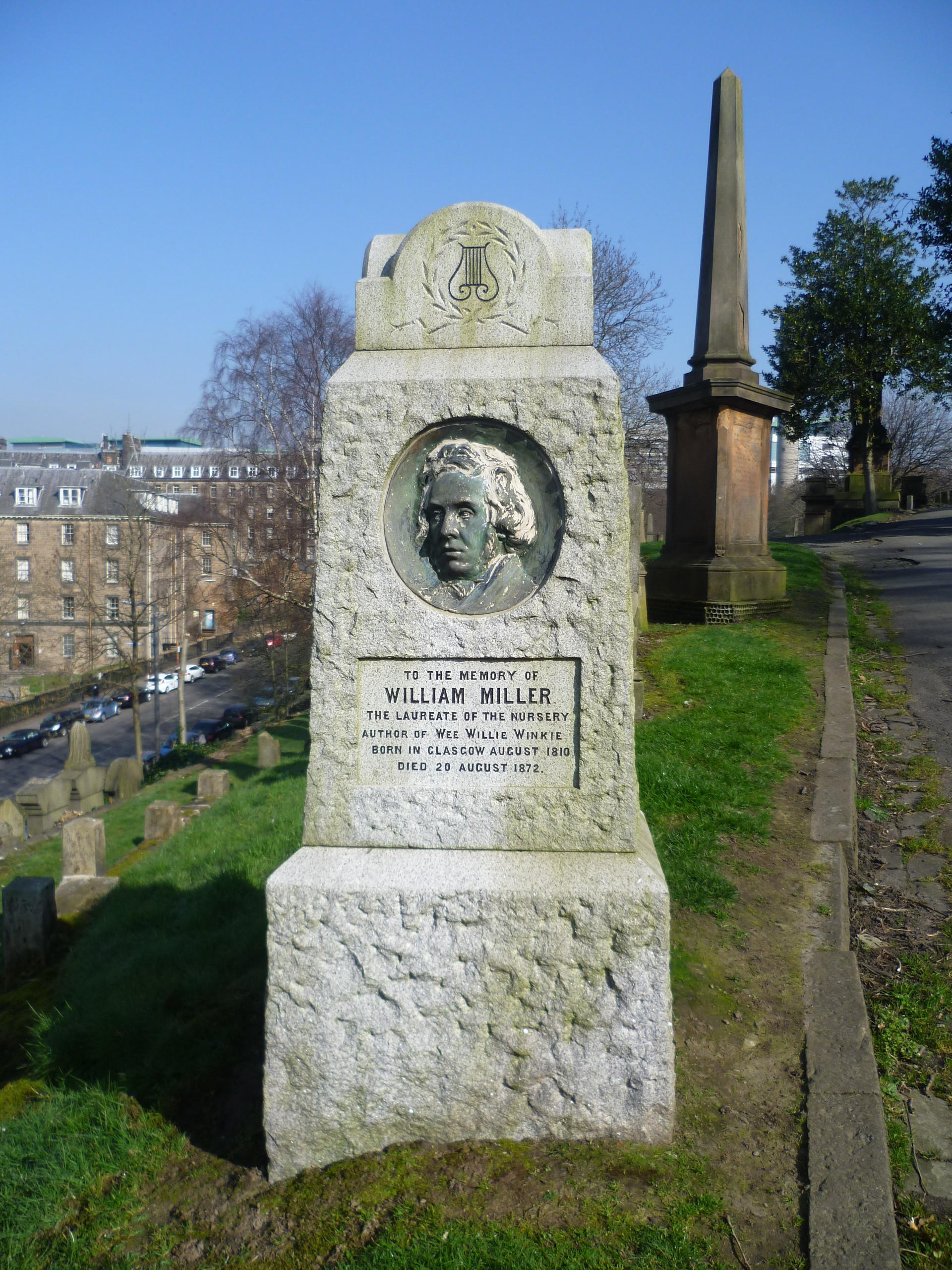 William Miller (1810-72) was the author of the well-known nursery rhyme 'Wee Willie Winkie'.